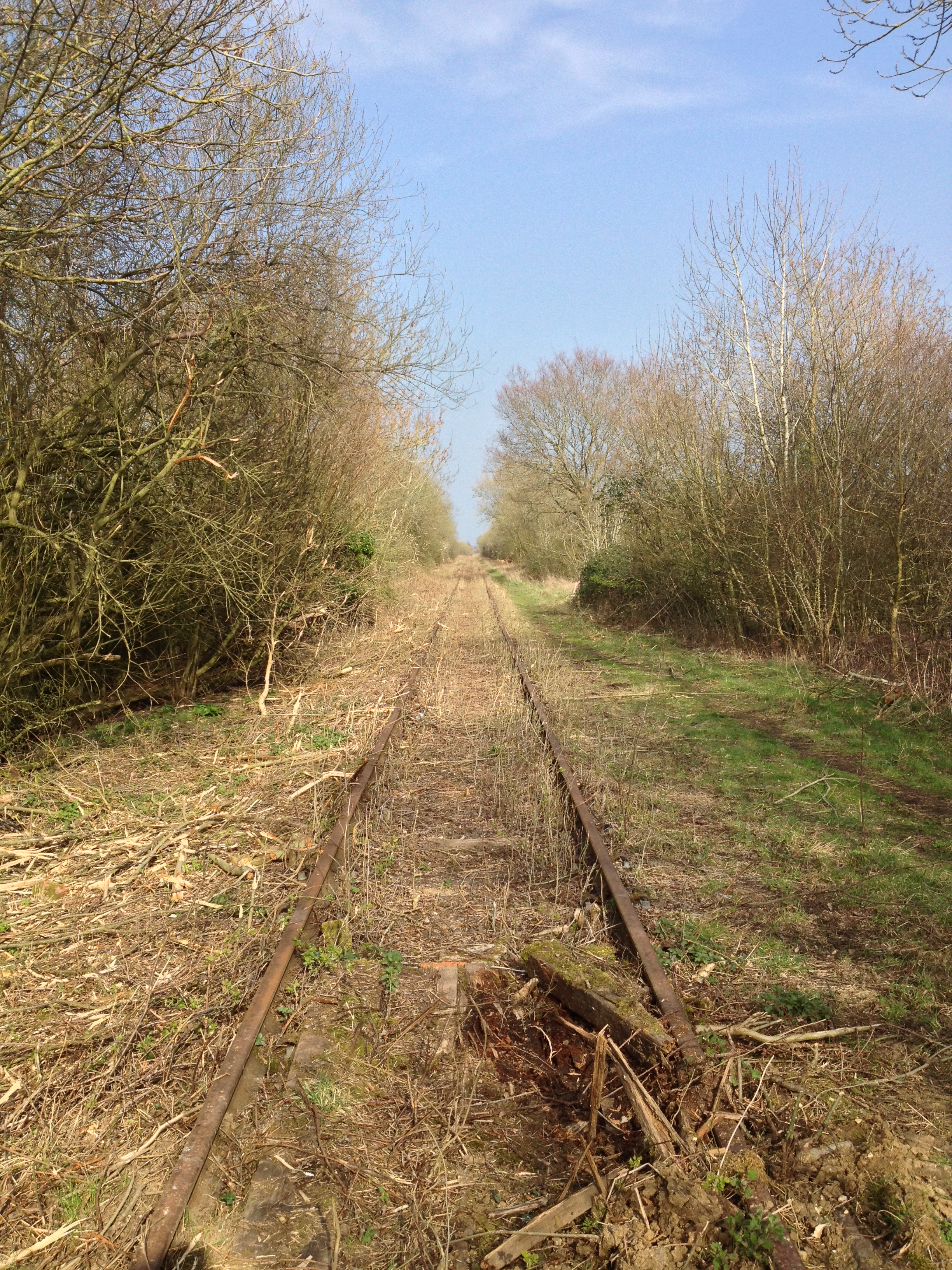 Looking eastbound on the currently mothballed "Varsity Line" from the north corner of Salden Wood, approx. 3.3 miles west of Bletchley station. This image shows where the vegetation that had grown over the existing track has been cleared in early 2014 pending the re-opening of the Western Section between Oxford and Bedford by 2019.